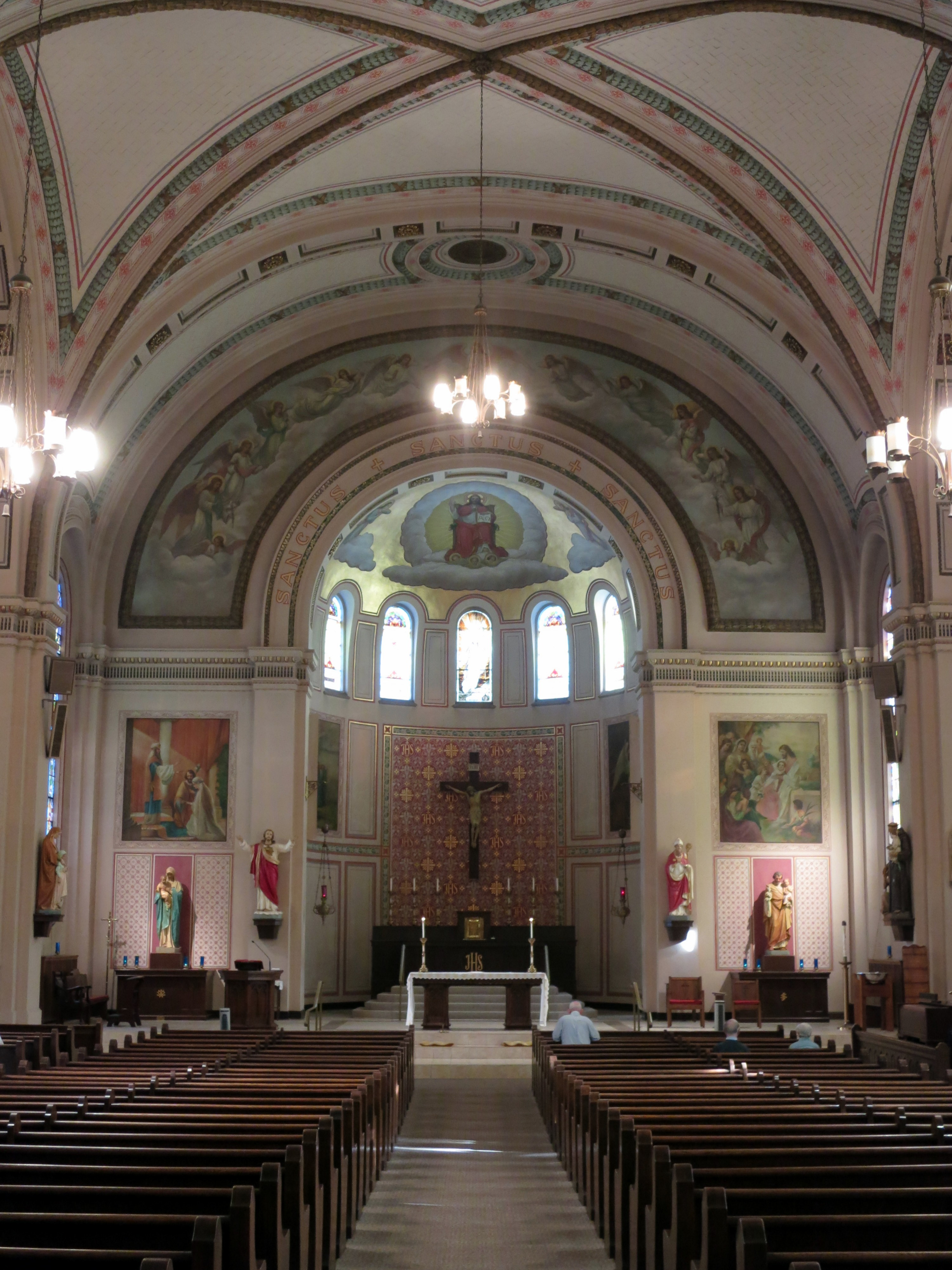 Saint Augustine Church (Covington, Kentucky) - nave 2